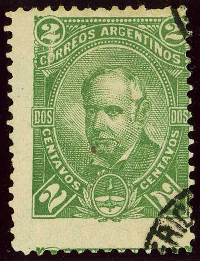 2 Centavos Stamp of Argentina issue 1888, Lopez y Planes (1785-1856). Used, Michel N°52.